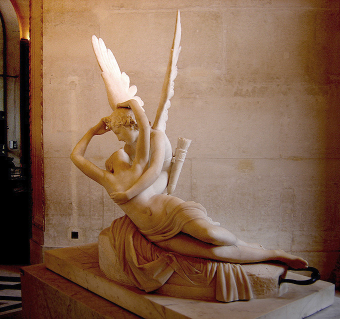 Psyche revived by the kiss of Love. Antonio Canova, Louvre